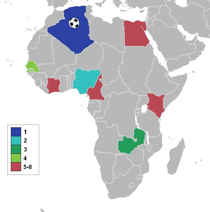 Countries positions in the 1990 African Cup of Nations